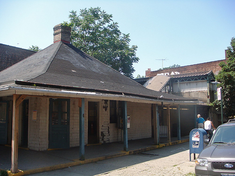 Avenue H Station House. 802 East 16th Street (1906). One of a few wood frame structures that are part of the subway system, this one-story shingled cottage was built as a sales office for the developer of the nearby Fiske Terrace, Thomas Benton Ackerman. It served this purpose for one year and became a station on the Brooklyn, Flatbush & Coney Island Railroad in 1907, now running below grade and called the Brighton Line. Like many houses built in the area during the early 20th century, it has a flared and hipped roof, as well as a wraparound porch.